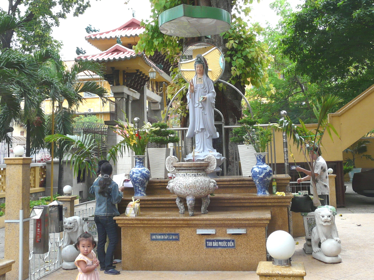 This Chinese style statue of the bodhisattva Quan Am stands in the courtyard at Xa Loi Pagoda, Ho Chi Minh City.